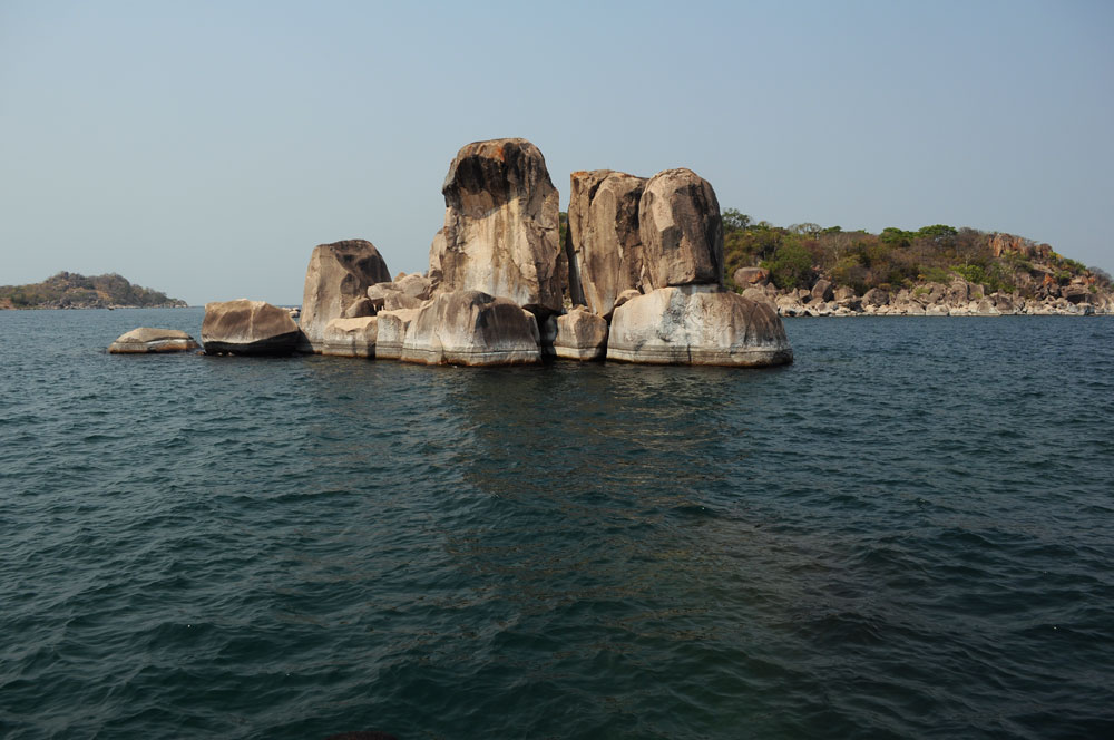 Megalithic outcrop in the vicinity of Namansi. Photo taken during a trip along the coast of Tanzania on Lake Tanganyika.